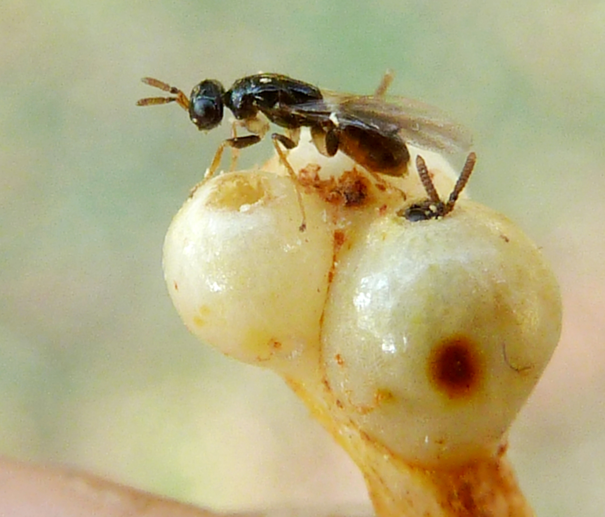 Sycomacophila sp gall wasp, just emerged from Ficus sur gall, Jan Celliers Park, Pretoria. Antennae of another wasp is visible.